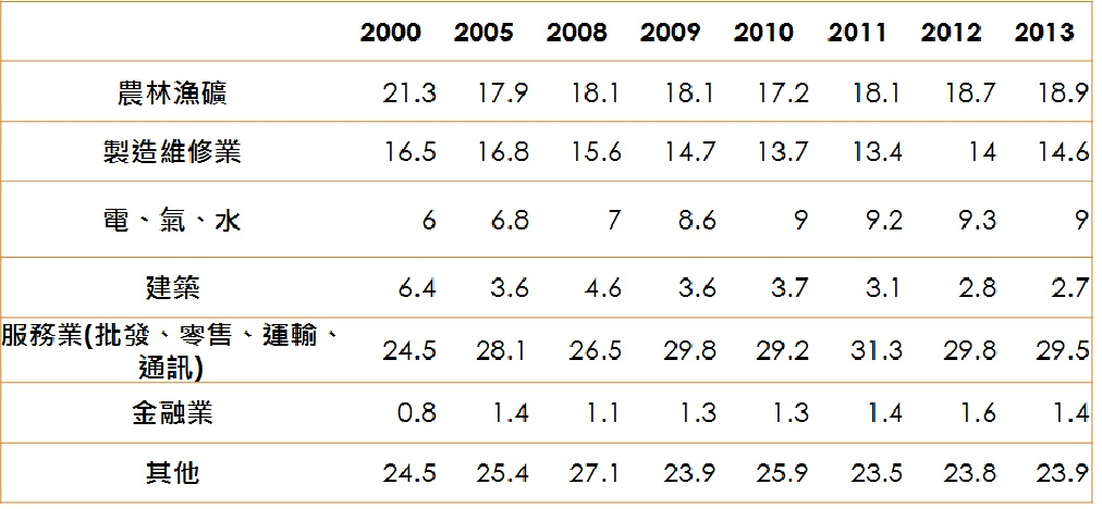 Main item of inflow investment in Russian Federation